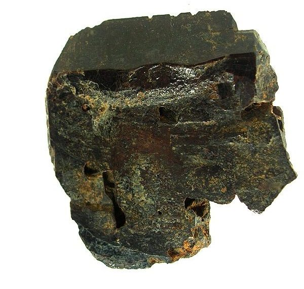 Allanite Locality: Yates mine, Otter Lake, Pontiac RCM, Outaouais, Québec, Canada (Locality at ) This large crystal of a rare earth mineral is well crystallized and of a rich brown color. It is quite elegant, even, which you cannot always say about this species. It also exhibits high luster and smoothness which makes the piece fairly exceptional for the locality. 4.8 x 4.5 x 0.5 cm